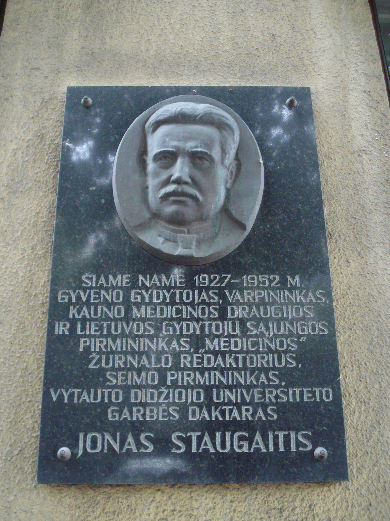 Jonas Staugaitis (1868–1952) commemorative plaque in Kaunas, Mickevičius Street.